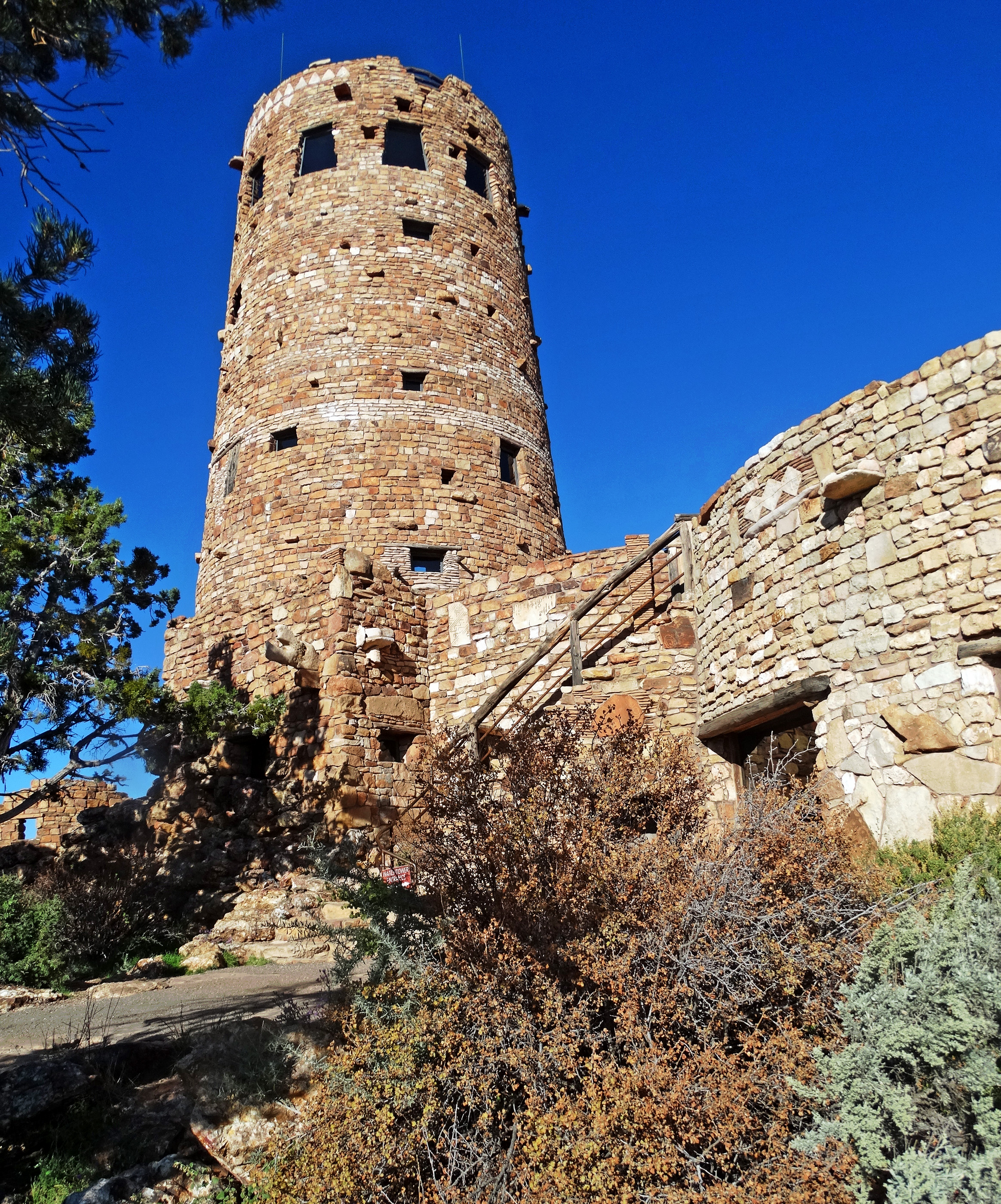 (1 in a multiple picture album) Mary Colter was an architect with an amazing talent for designing buildings which blended in with the surroundings. The Watchtower is designed to do this AND to resemble the dwellings of the ancient Pueblo people. You can climb five flights of stairs. At each level are windows offering a 360 degree view of the canyon and the desert to the east. The watchtower was the last of the series of Mary Colter-designed visitor concession structures at the Grand Canyon until her renovation of the Bright Angel Lodge in 1935.